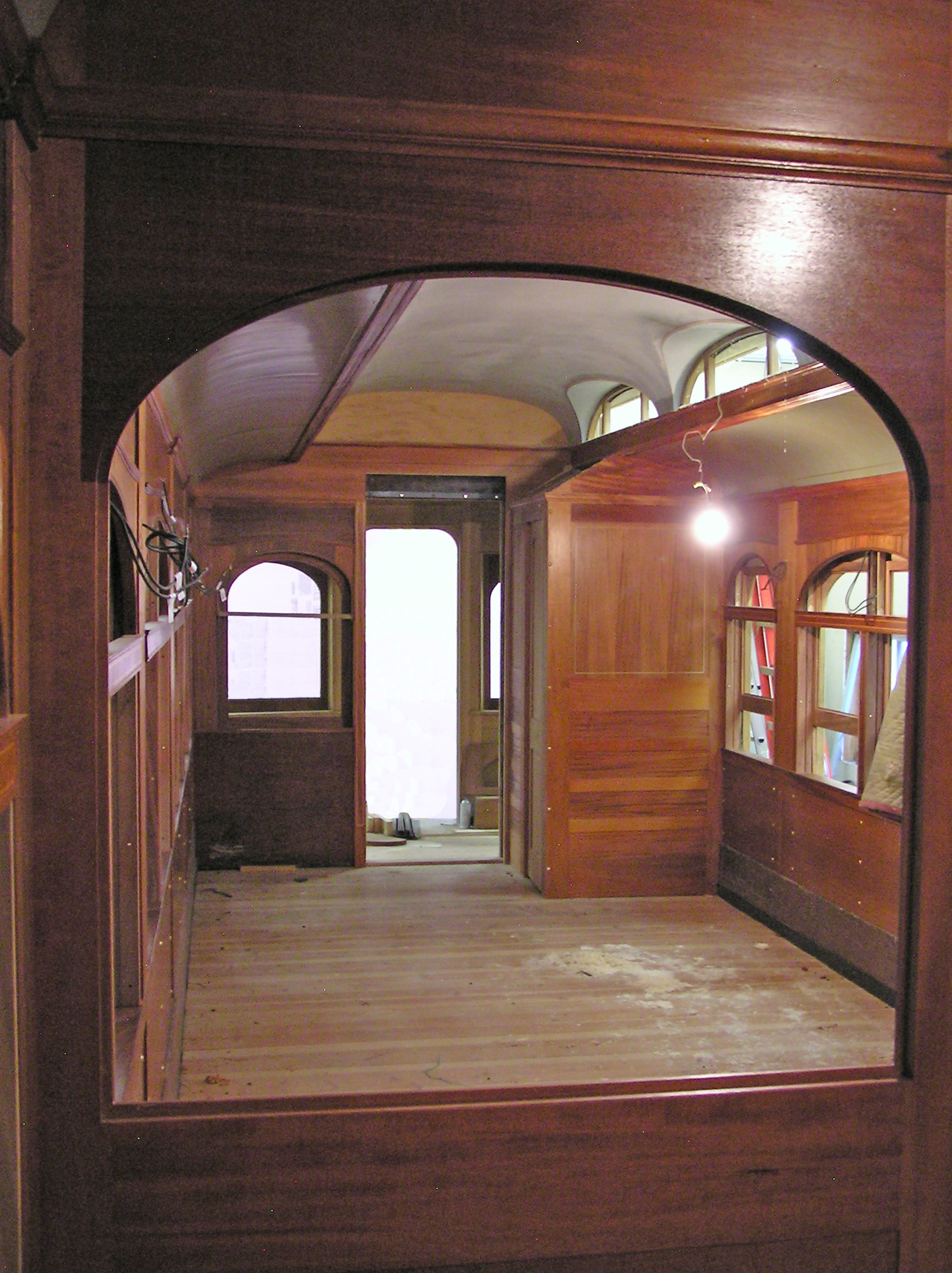 The interior of South Shore Lines #73 while undergoing restoration.